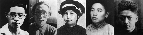 Five Martyrs of the League of Left-Wing Writers. From left: Hu Yepin, Rou Shi, Feng Keng, Yin Fu, Li Weisen (Li Qiushi).